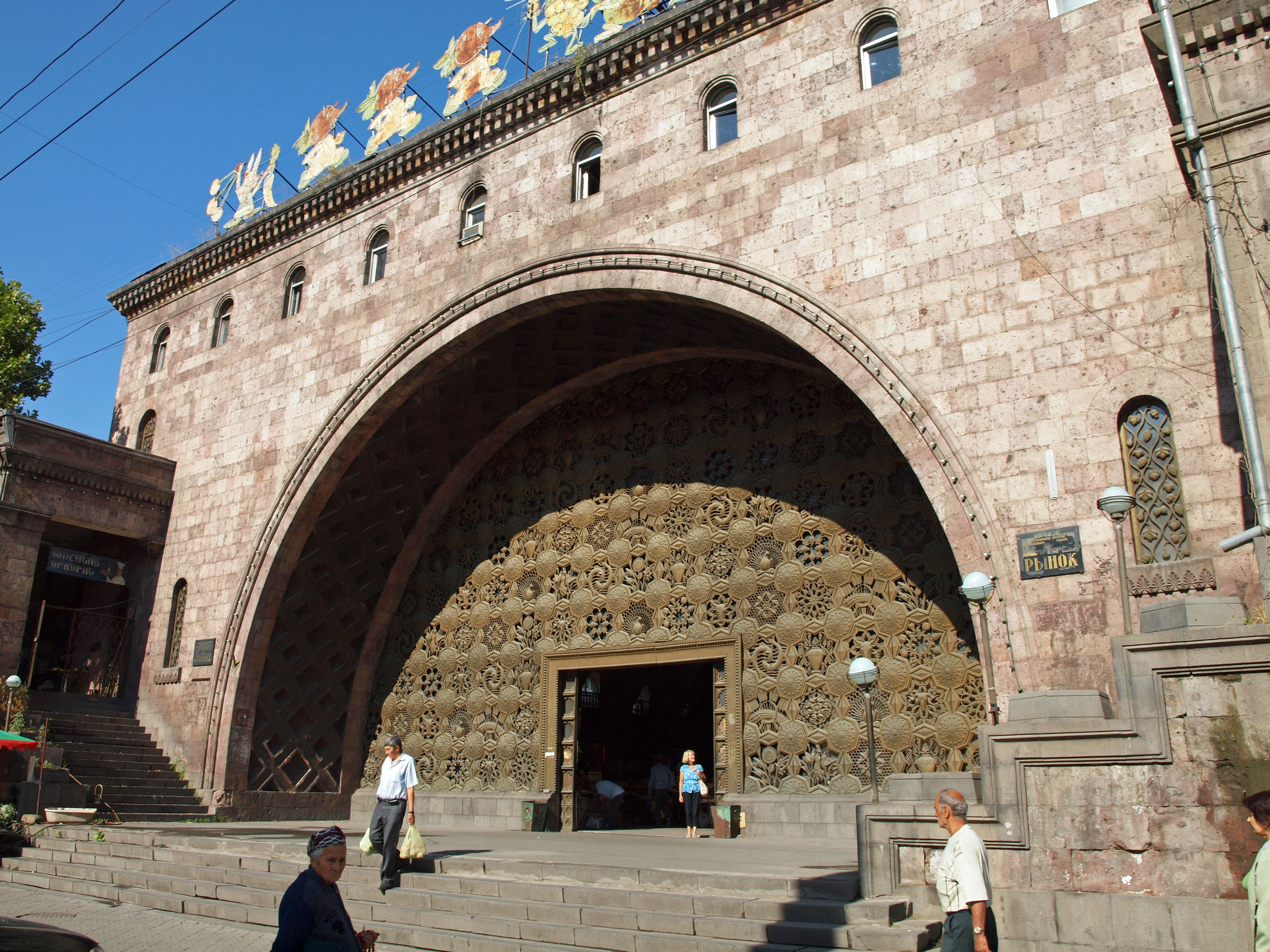 Yerevan's Covered Market exterior.